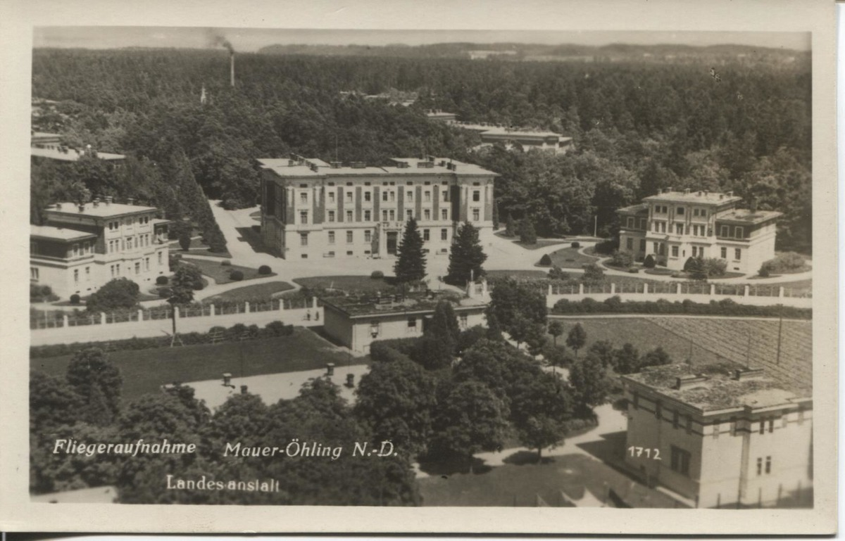 LK Mauer Anlage Eingang